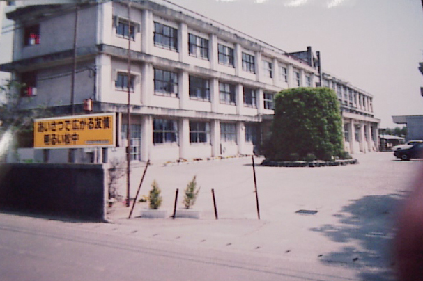 Komatusima Junior High Shool Old School building01